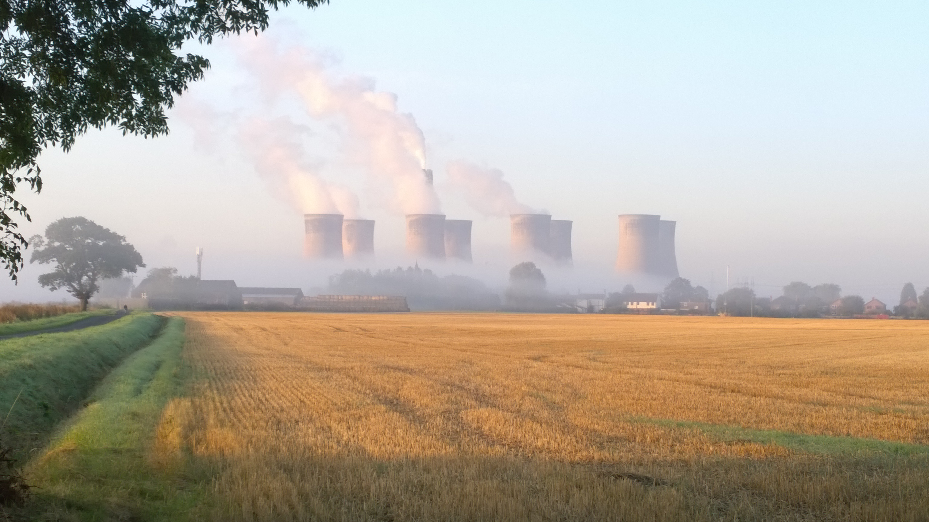 Eggborough in the mist Sept 2016